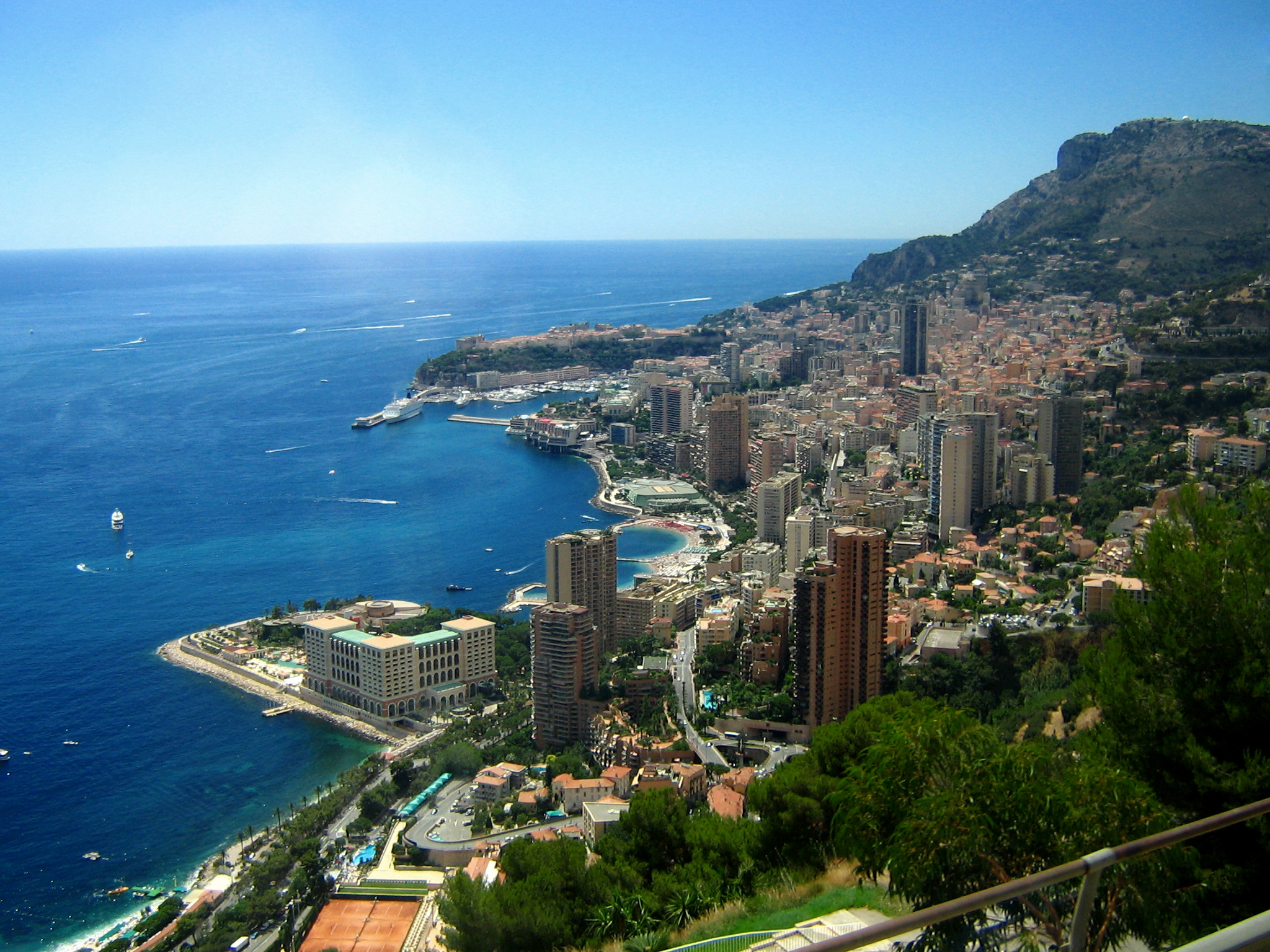 View of Monaco